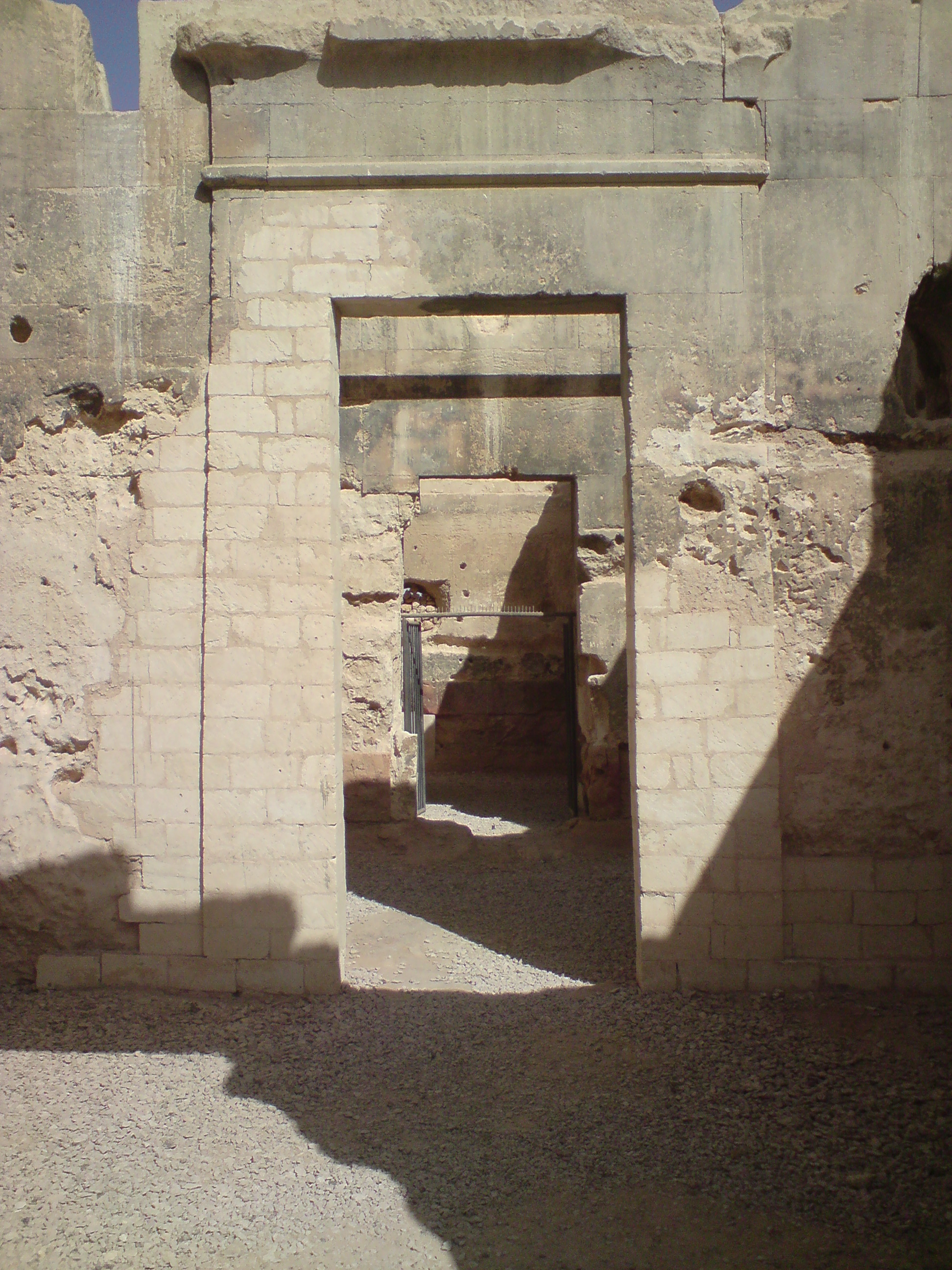 The entrance to the famous temple of the Oracle of Amun at Siwa Oasis in Egypt.